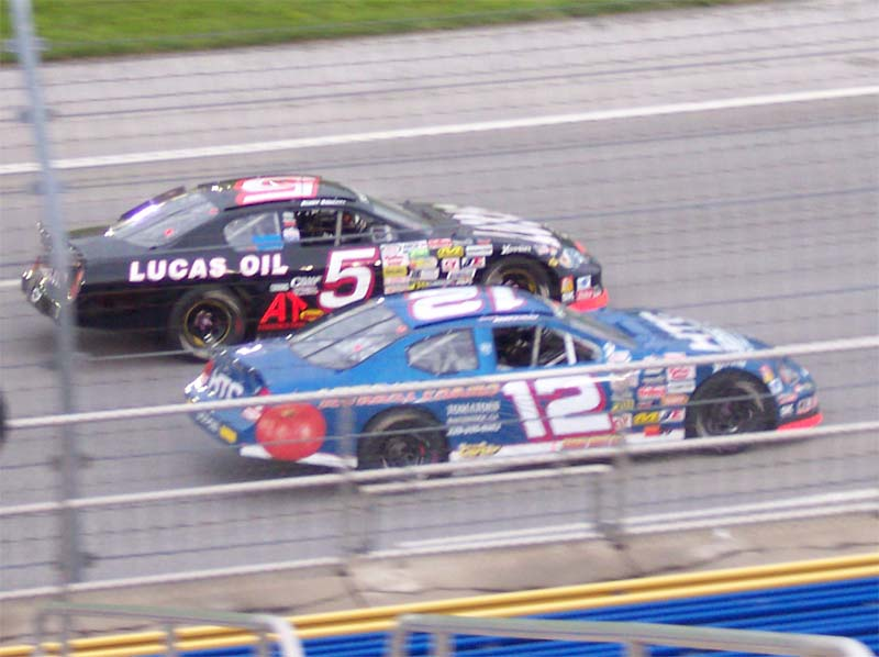 Bobby Gerhart (No. 5) races Dawayne Bryan (No. 12) in the ARCA Racing Series Harley-Davidson of Cincinnati 150 at Kentucky Speedway on May 13, 2006.